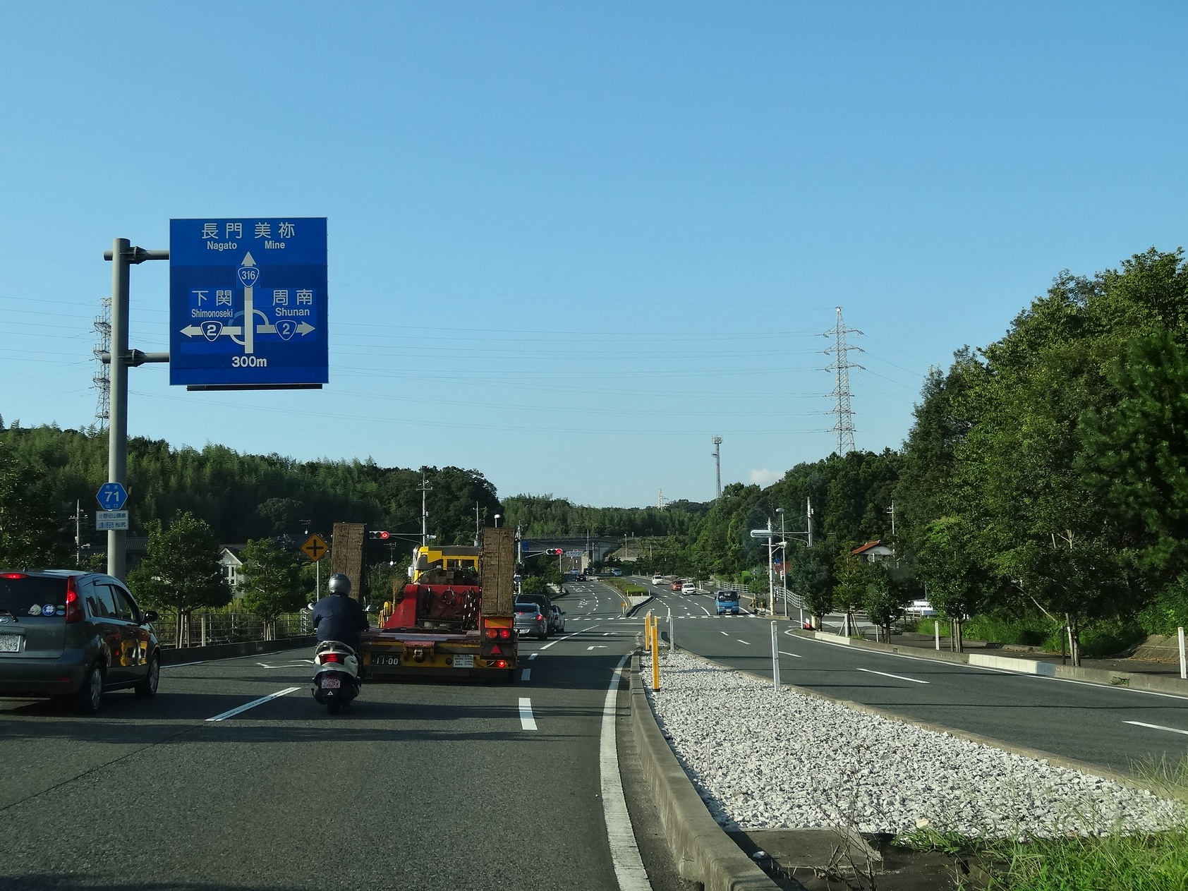 Yamaguchi Prefectural Road No.71 Onoda-Sanyo Line (Somajiri, Kori, Sanyo-Onoda City, Yamaguchi Japan)